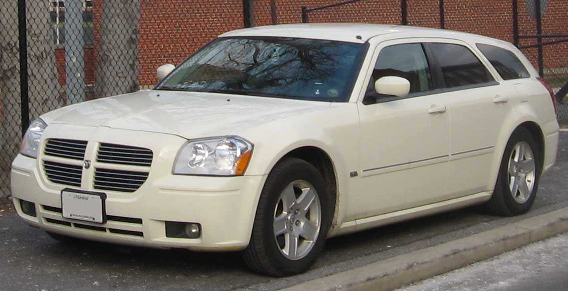 2005-2007 Dodge Magnum photographed in College Park, Maryland, USA.